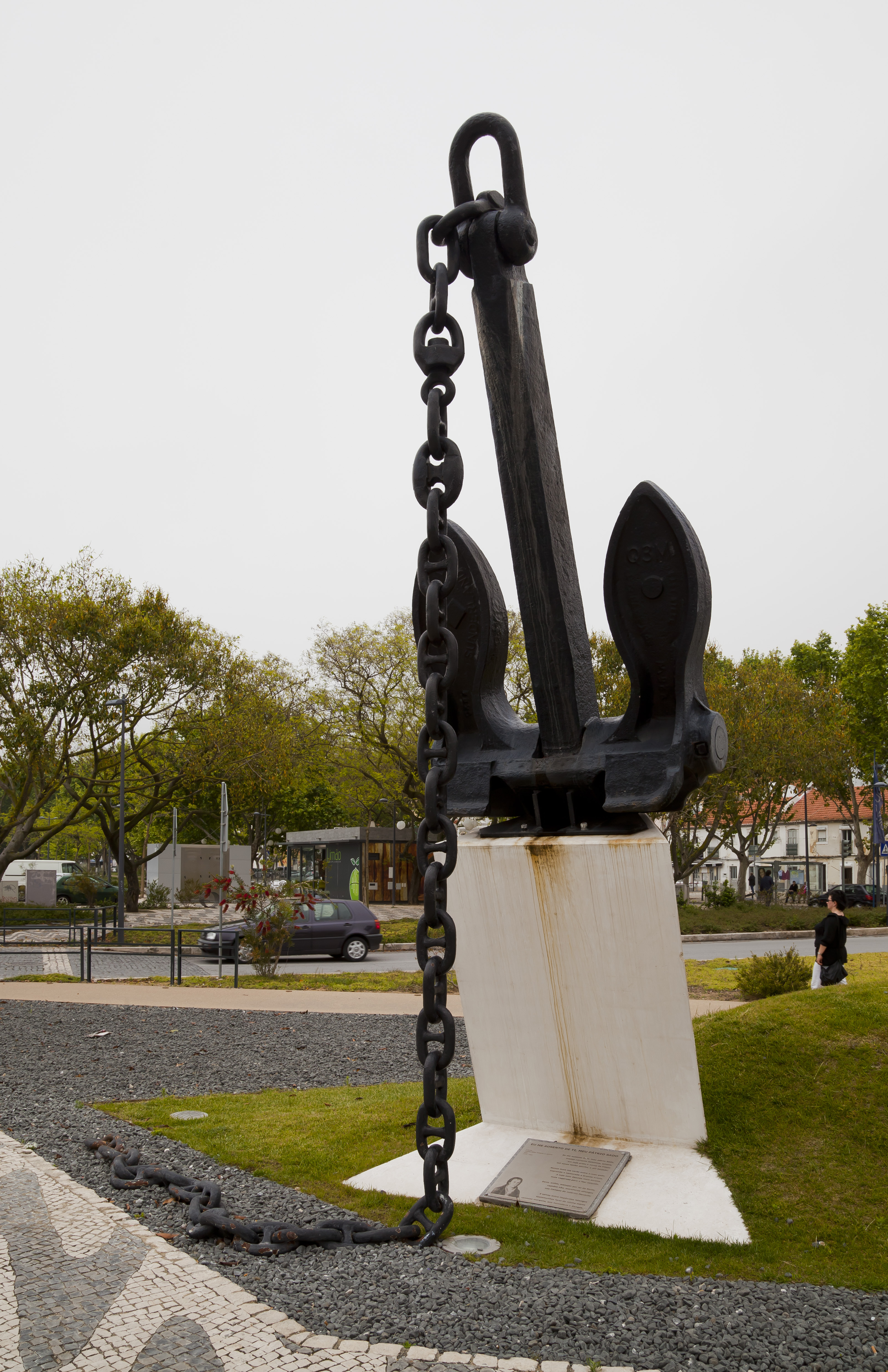 Anchor, Avenida Luisa Todi, Setubal, Portugal